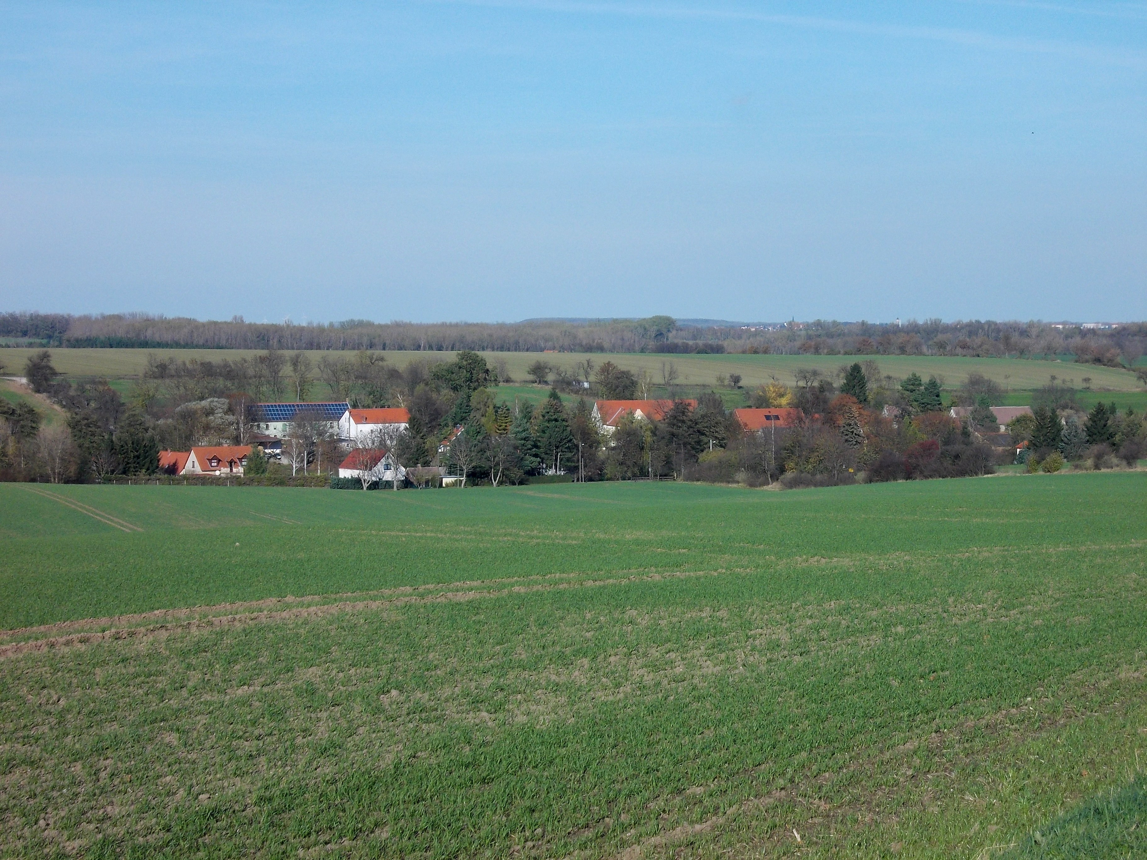 Oberschwöditz (Teuchern, district: Burgenlandkreis, Saxony-Anhalt) from the south-west